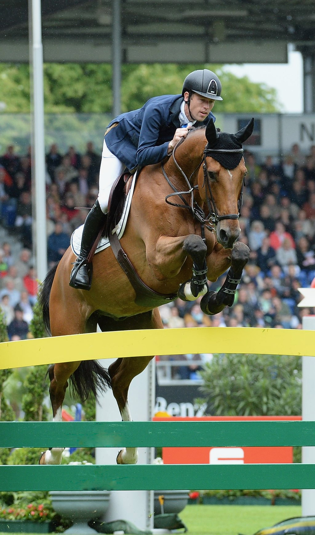 Scott Brash riding Hello Sanctos in Aachen